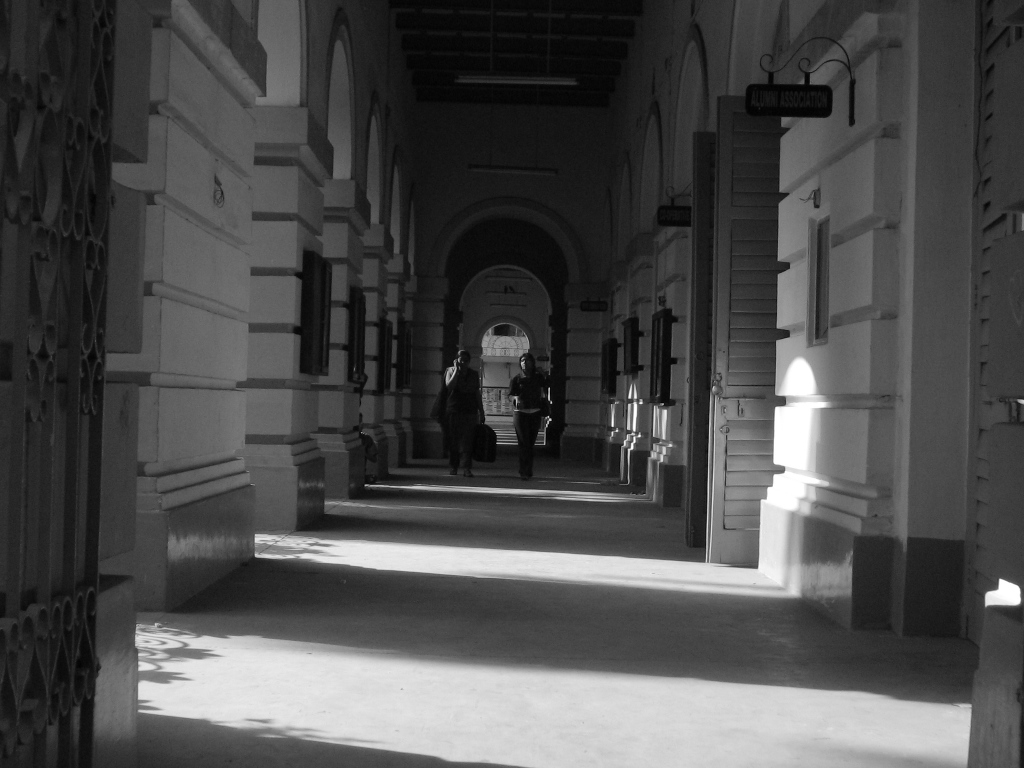 Corridor of Main Building at Presidency College, Kolkata